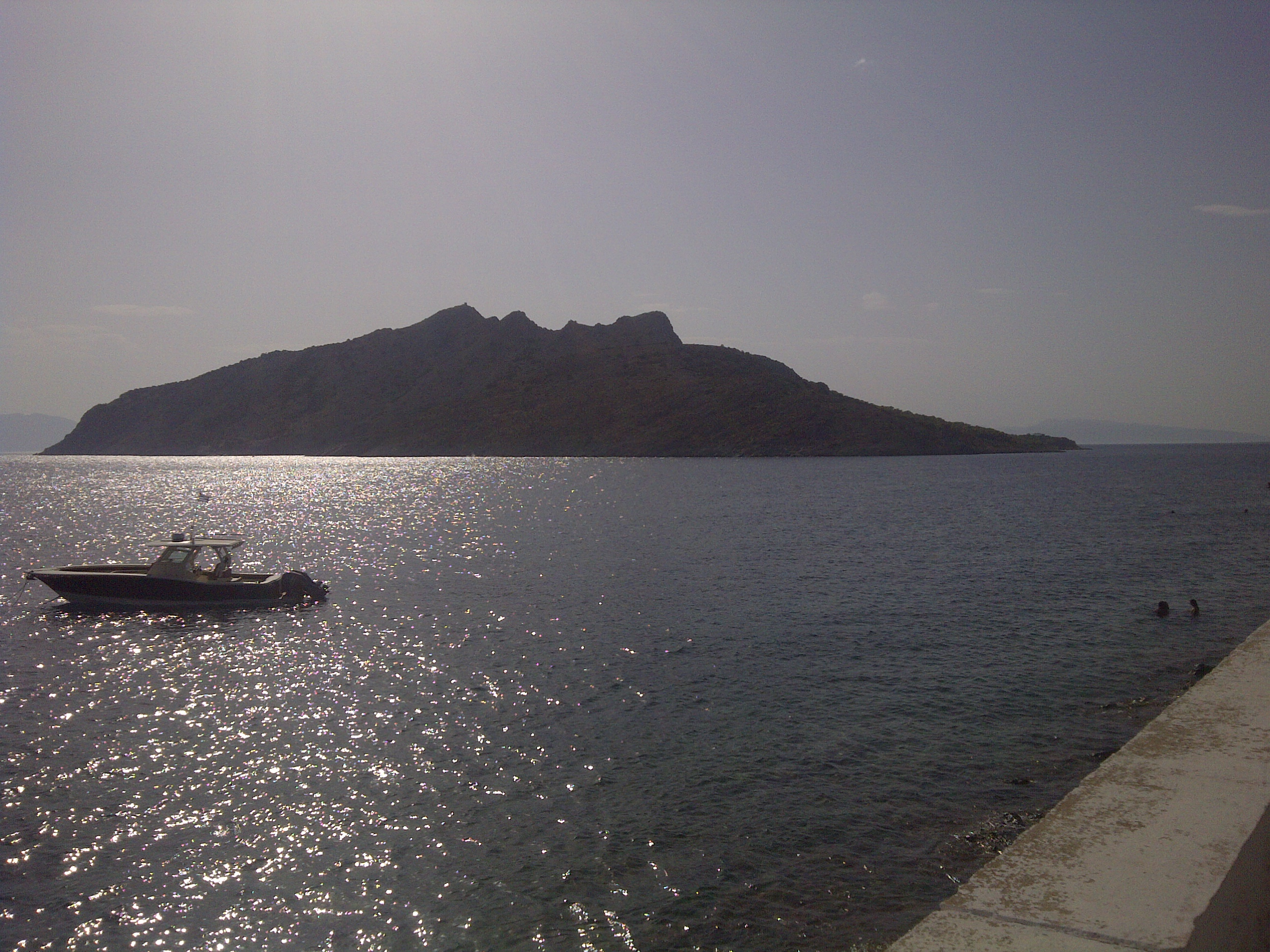 Moni island from Agios Sozon Perdikas, Aegina island, Greece